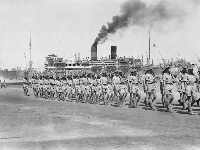 Men from the 2/25th Battalion serving in Syria in 1941